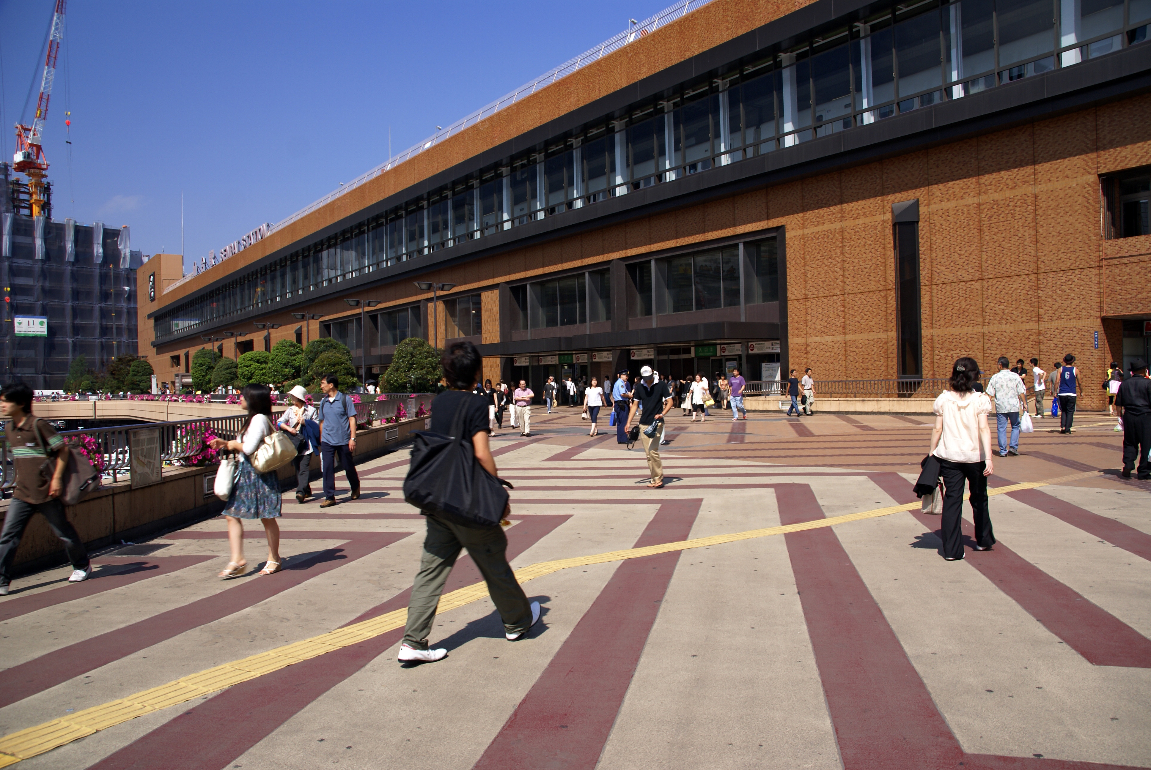 Sendai Station in Sendai, Miyagi Prefecture, Japan